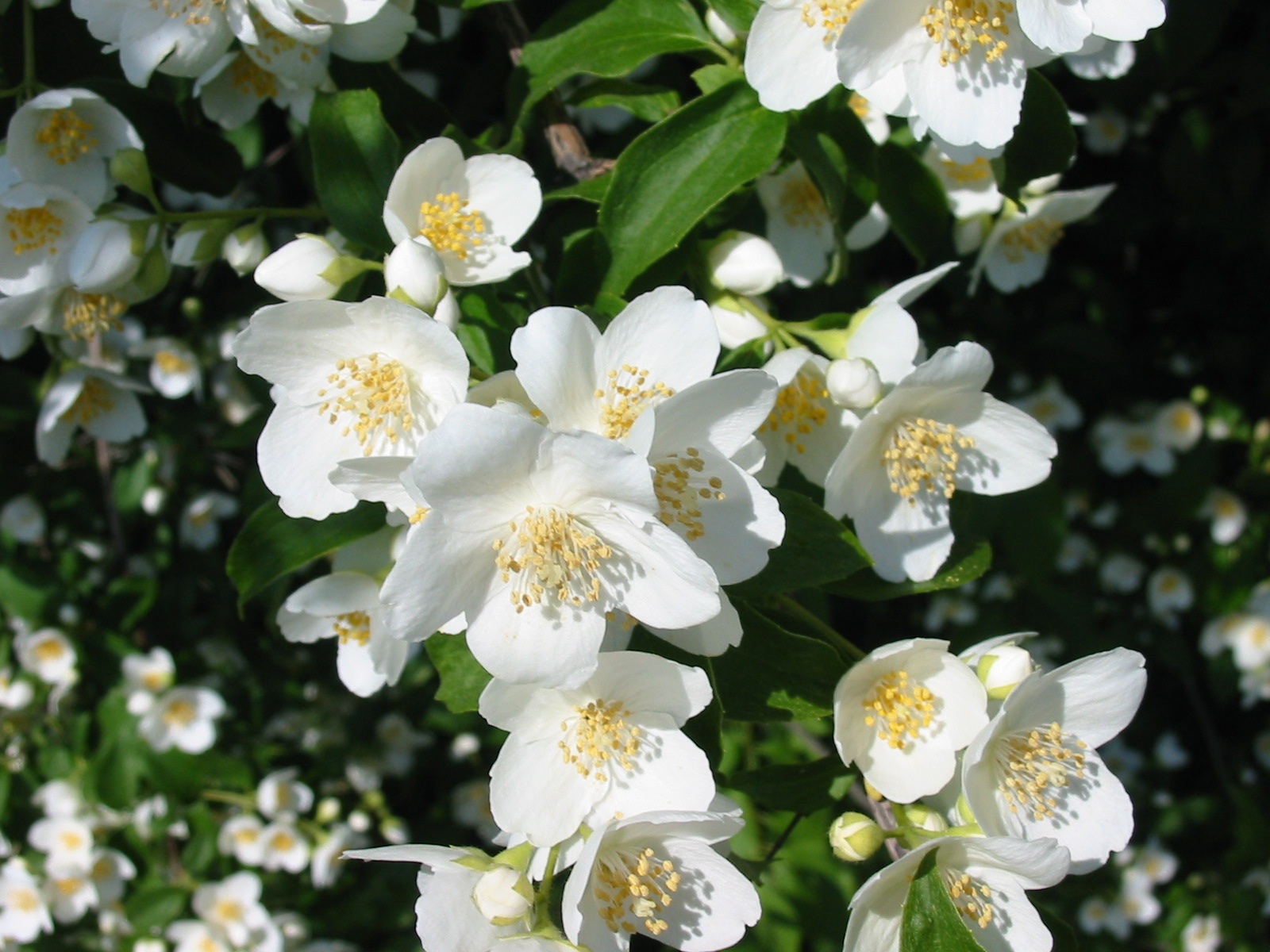 A closeup of blooming Philadelphus flowers